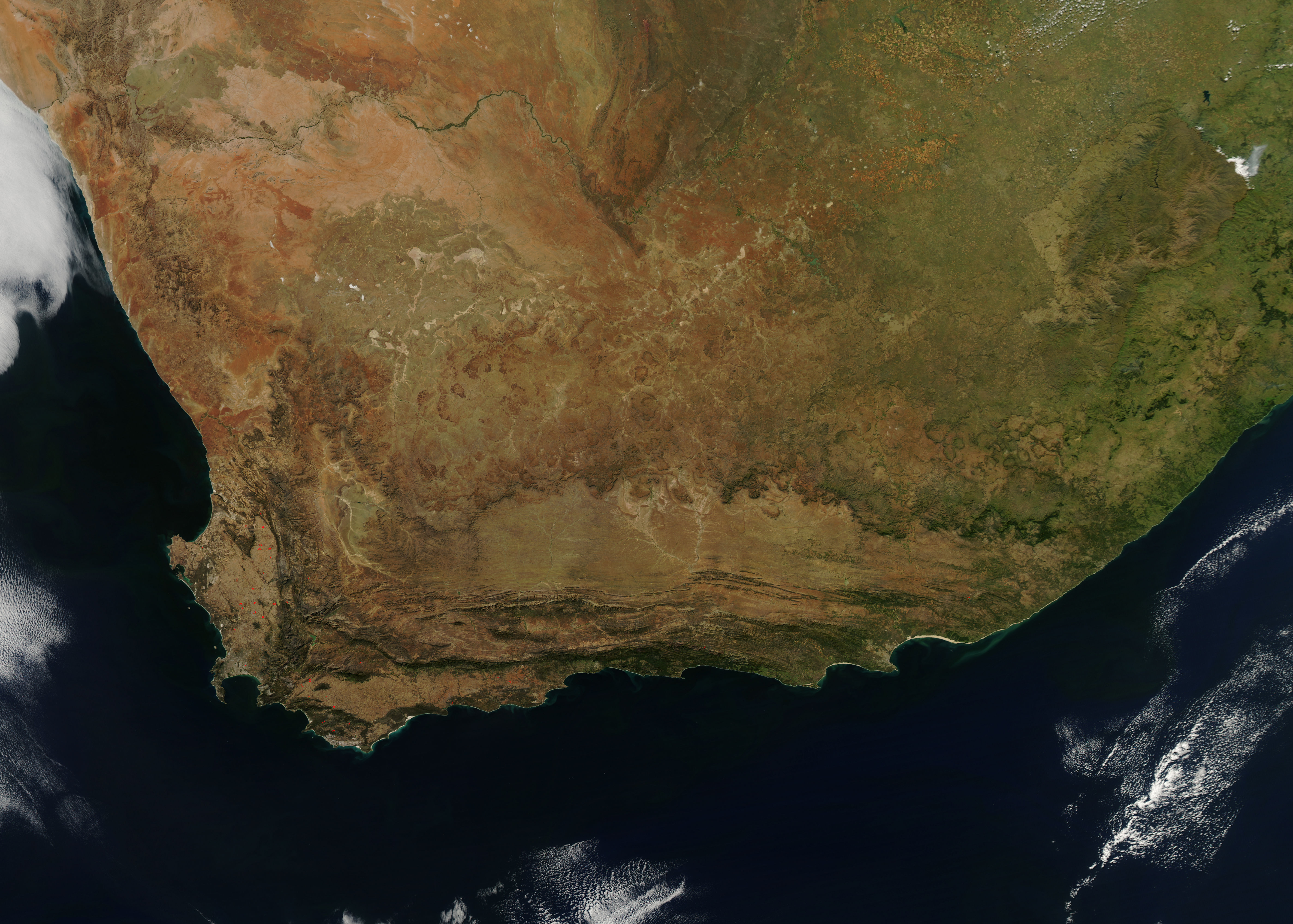 Photo-like satellite image of South Africa's Great Escarpment.